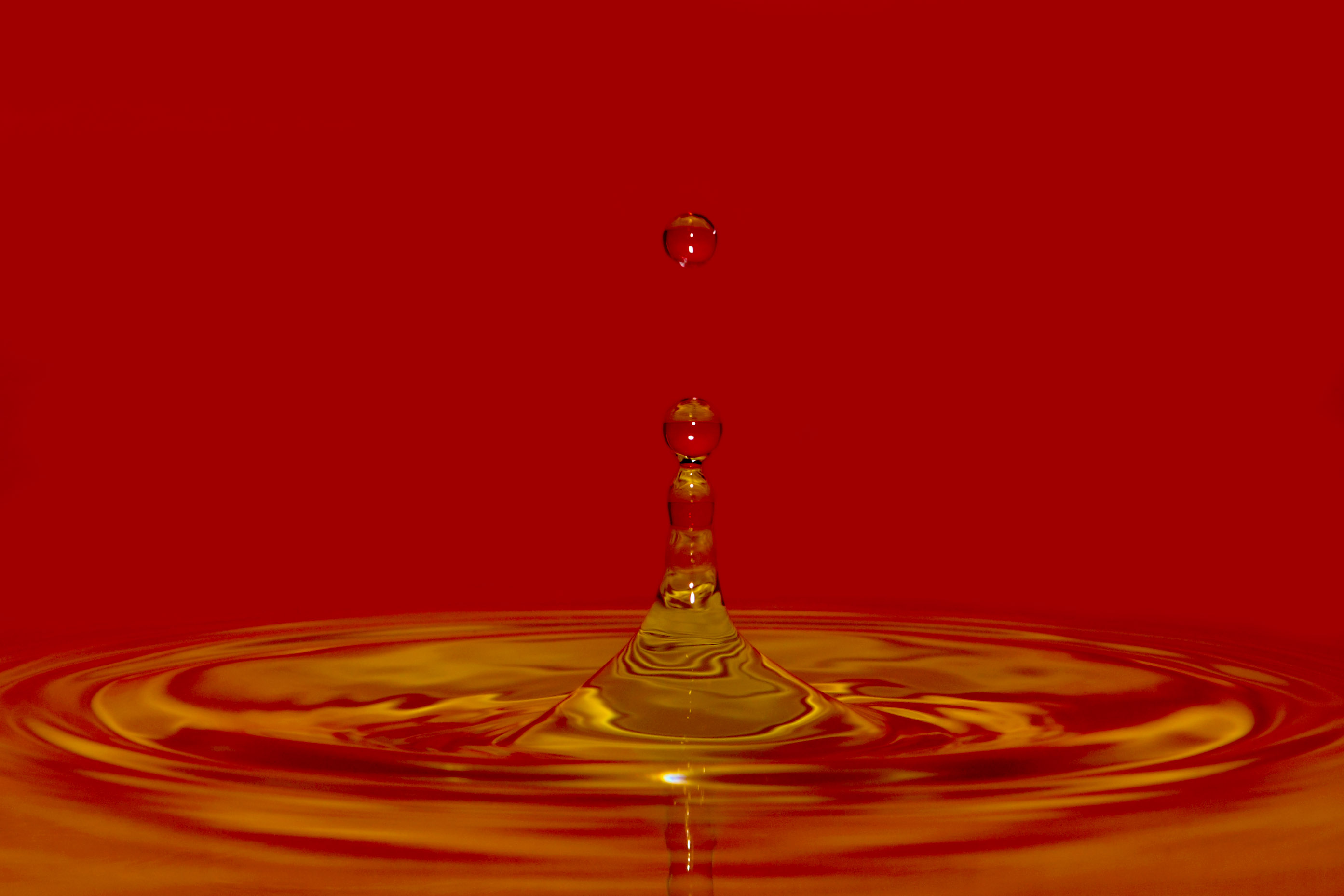 Yeah, sooner or later it happens.. a rainy sunday and you start building your set for the most boring of all boring pictures!